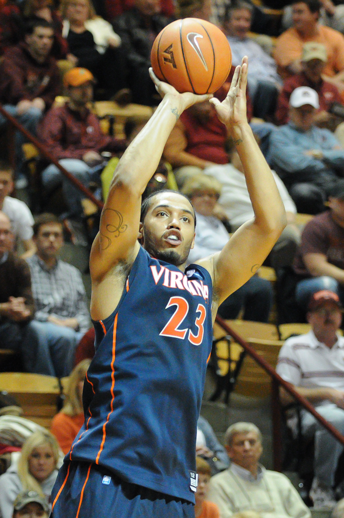 Mike Scott takes a shot